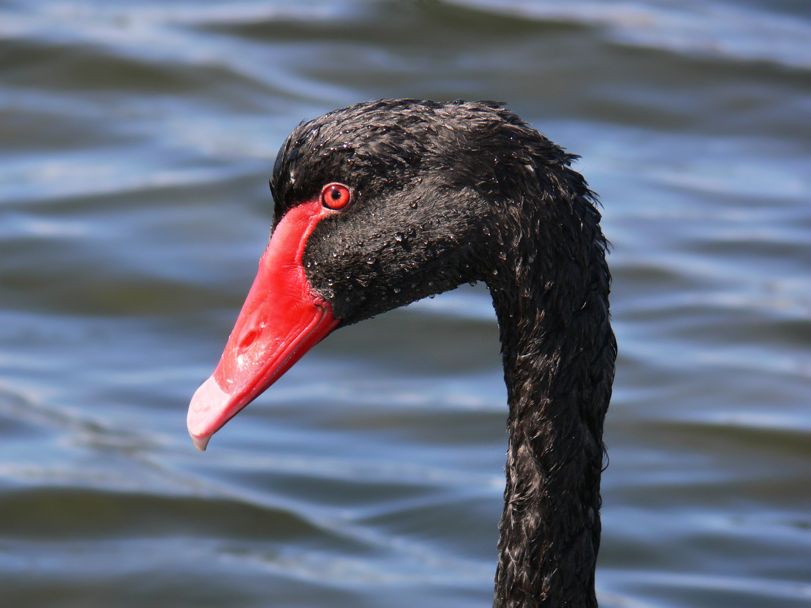 A wild black swan Cygnus atratus . taken in south east Australia